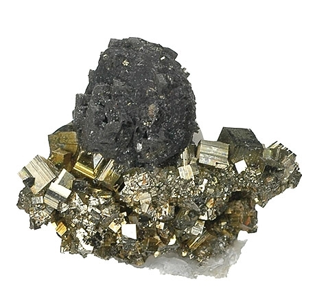 Freibergite, Pyrite Locality: Eagle Mine, Gilman, Gilman District (Battle Mountain District; Red Cliff District), Eagle County, Colorado, USA (Locality at ) Size: 2.0 x 1.6 x 1.3 cm A 1.1 cm, sharp, attractive, well-formed group of grey Freibergite crystals sitting on sparkling, lustrous, cubic Pyrite matrix. The Freibergite group shows excellent tetrahedral form as you can see from the micro photos. Ex. Marilyn Dodge and Brian Kosnar Collections.